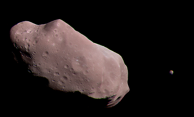 Asteroid 243 Ida as seen by the Galileo probe on August 28, 1993. Image Credit: NASA/JPL/Processed by Kevin M. Gill